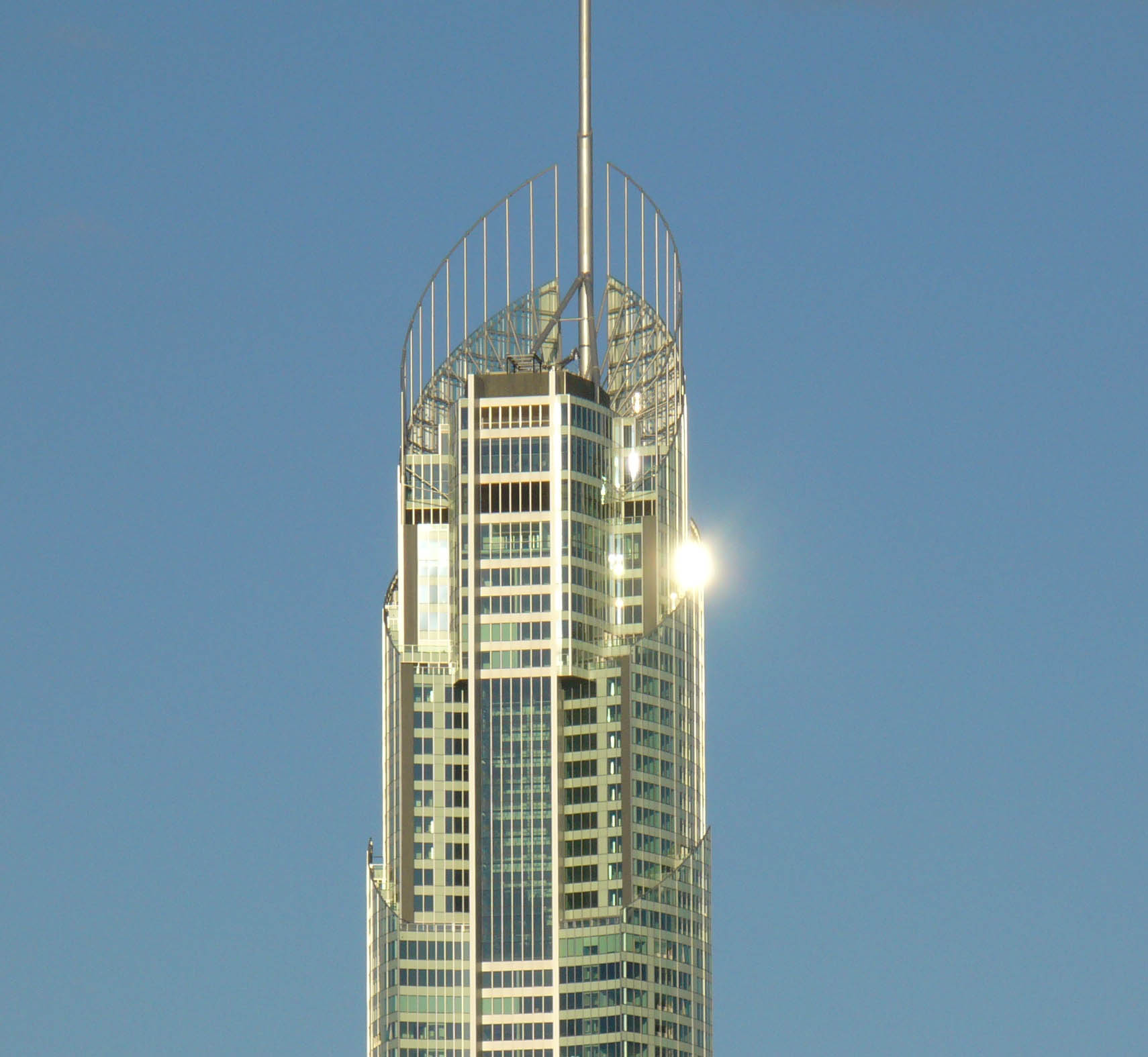 The top of Q1 viewed from the rear. Taken by myself on 12st August 2006 Does anyone else think this looks like the World Series trophy?WikiCats